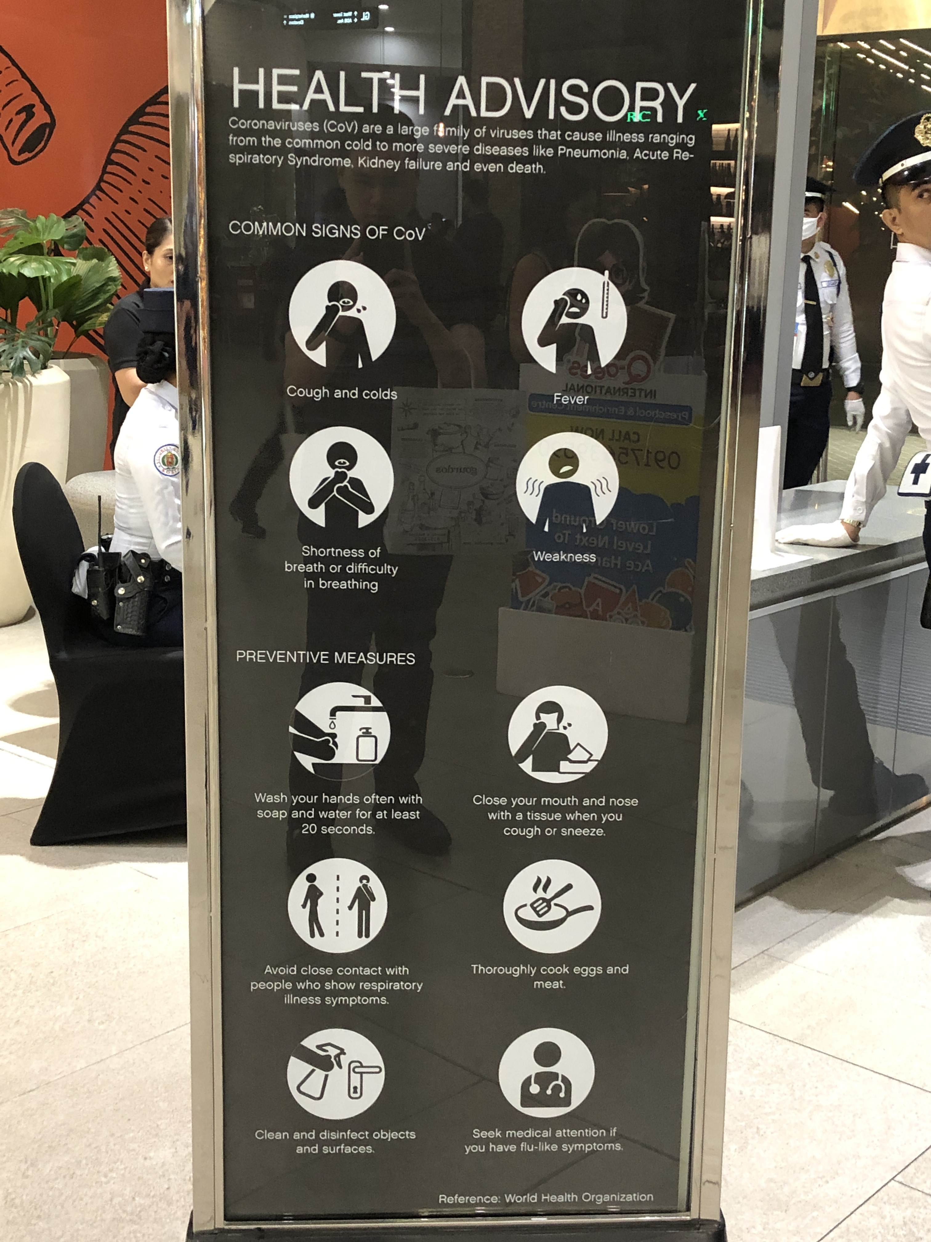 Warning sign inside the Podium regarding COVID-19.